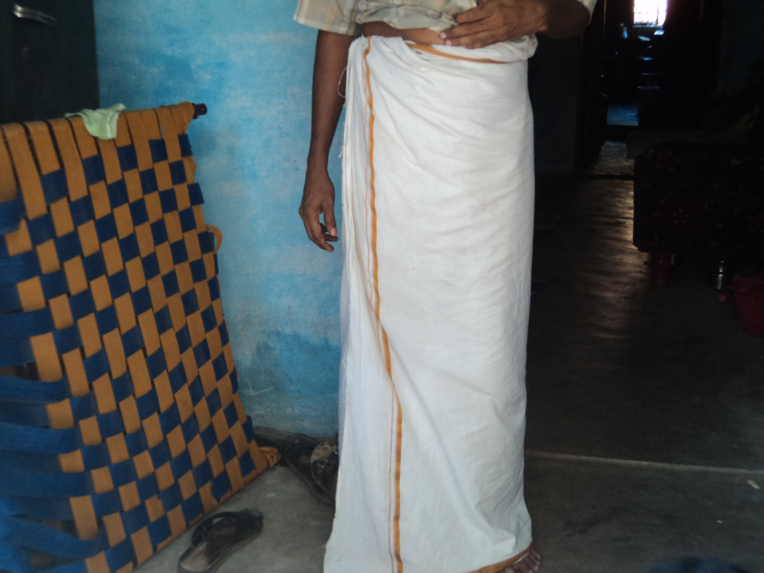 some important event/culture in central (Attur town, Salem district) Tamil Nadu